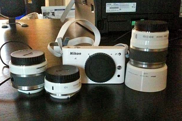 Nikon 1 J1 in white color with 3 lenses.